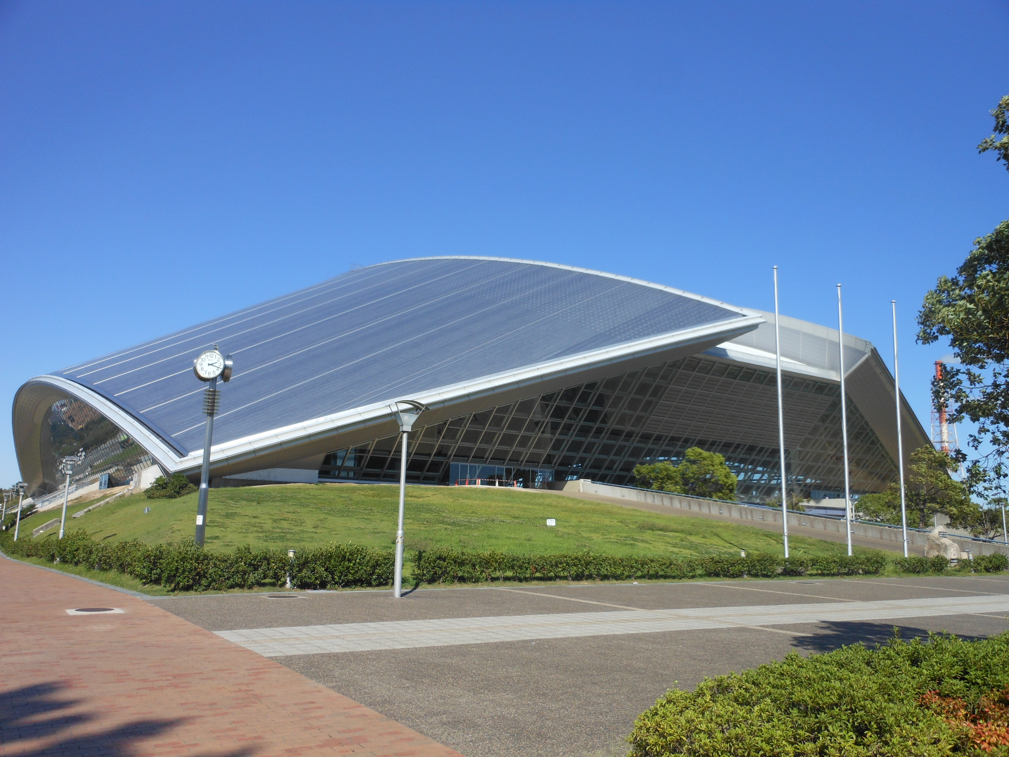 This is the Yokkaichi Dome, which is located in Yokkaichi port, city of Yokkaichi, Mie prefecture, Japan.